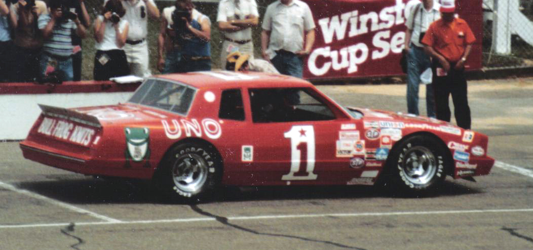 The Hoss Ellington Uno Chevy of Lake Speed finished 12th in the 1983 Van Scoy 500.